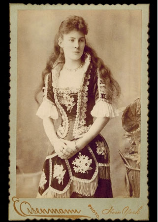 Mattie Lee Price: Eisenman Cabinet Card circa 1890-1893; New York City